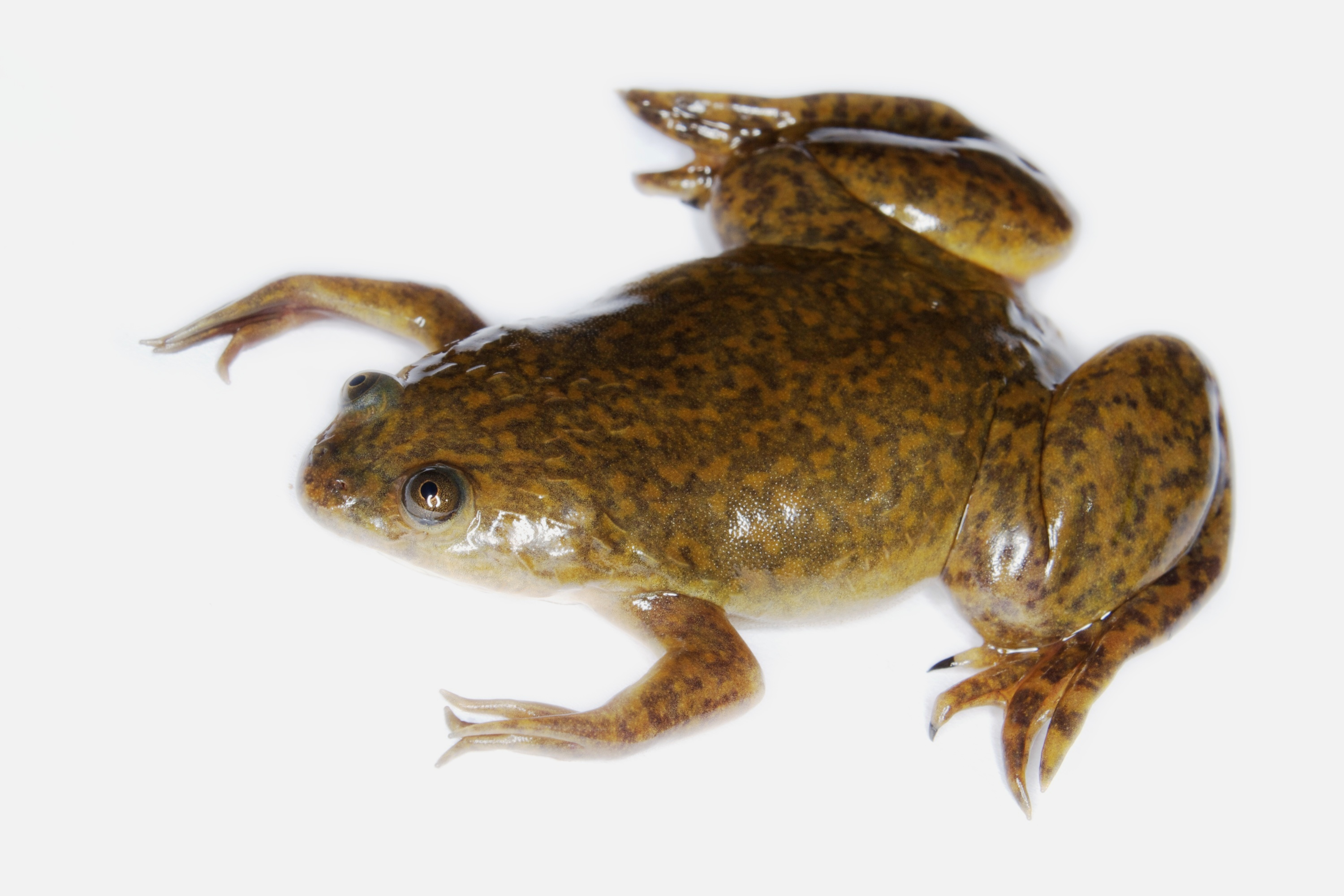 Xenopus laevis, from Chimanimani, Manicaland, Zimbabwe